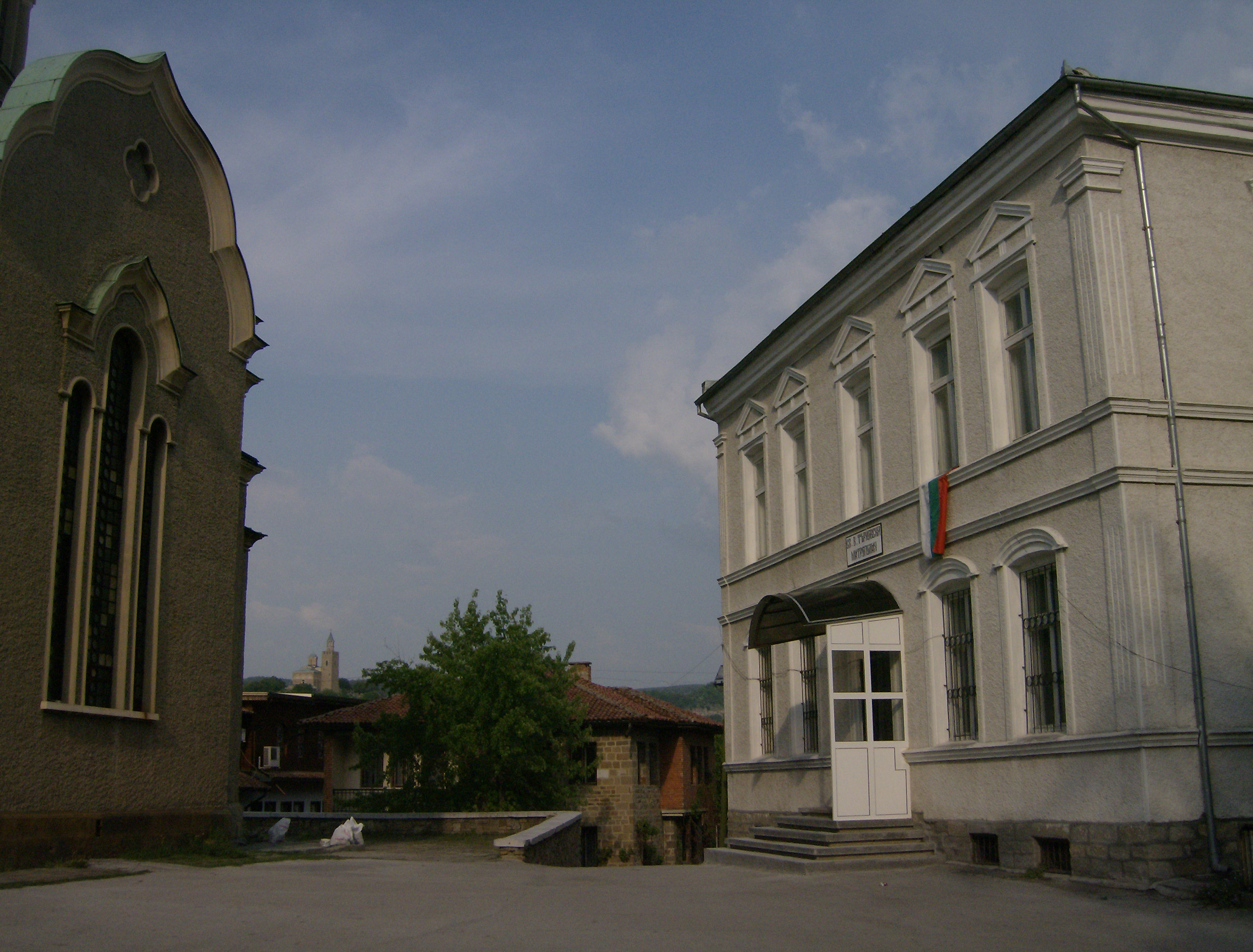 Veliko Tarnovo Metropolitan